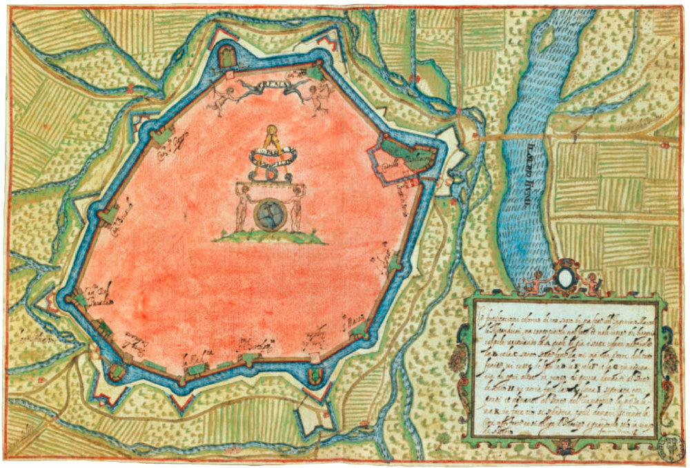 Historical Map of Crema, 1620, draw a pen and a dry ink, with watercolor, on paper, wall plant with new bastions, kept at the Treviso Municipal Library